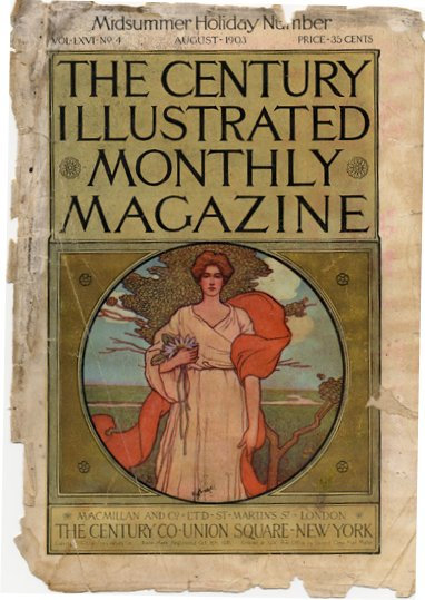 Magazine cover: Century Magazine, August, 1903